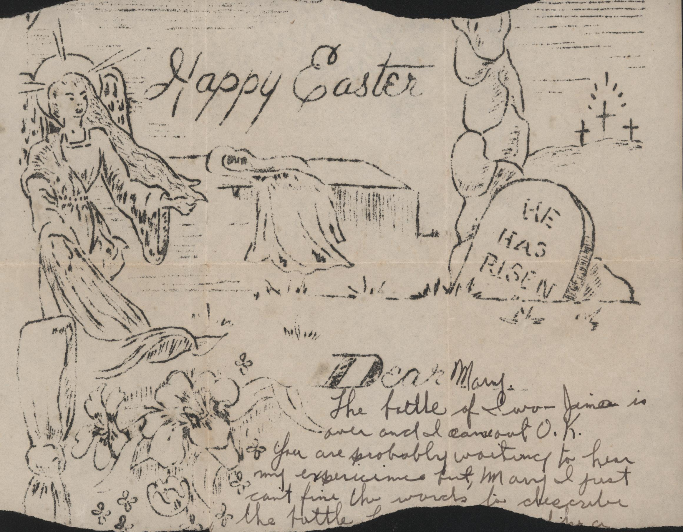 A Happy Easter letter written by Stanley Ewashko to his sister, Mary, during the Battle of Iwo Jima (February-March 1945). During this time, Ewashko served with the 4th Marine Division. The partial letter reads: "Dear Mary, The Battle of Iwo Jima is over and I came out o.k. You are probably waiting to hear my experiences but, Mary I just can't find the words to describe the battle..." From the collection of Stanley Ewashko, COLL/4997, United States Marine Corps Archives & Special Collections OFFICIAL USMC PHOTOGRAPH